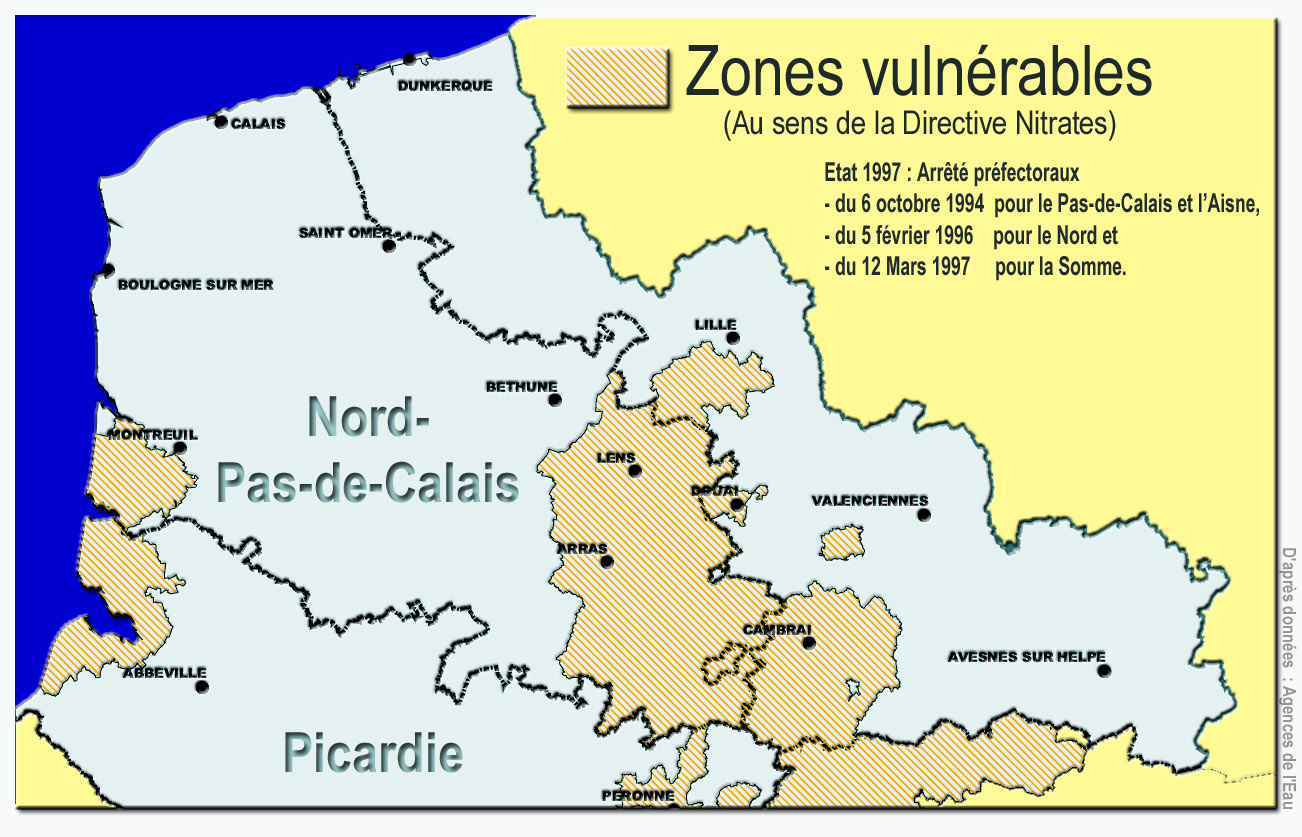 Zones of application of Nitrat European Directive in 1997, for the north of france. In 2004, all the region was finally concerned and covered by the directive and action progra.